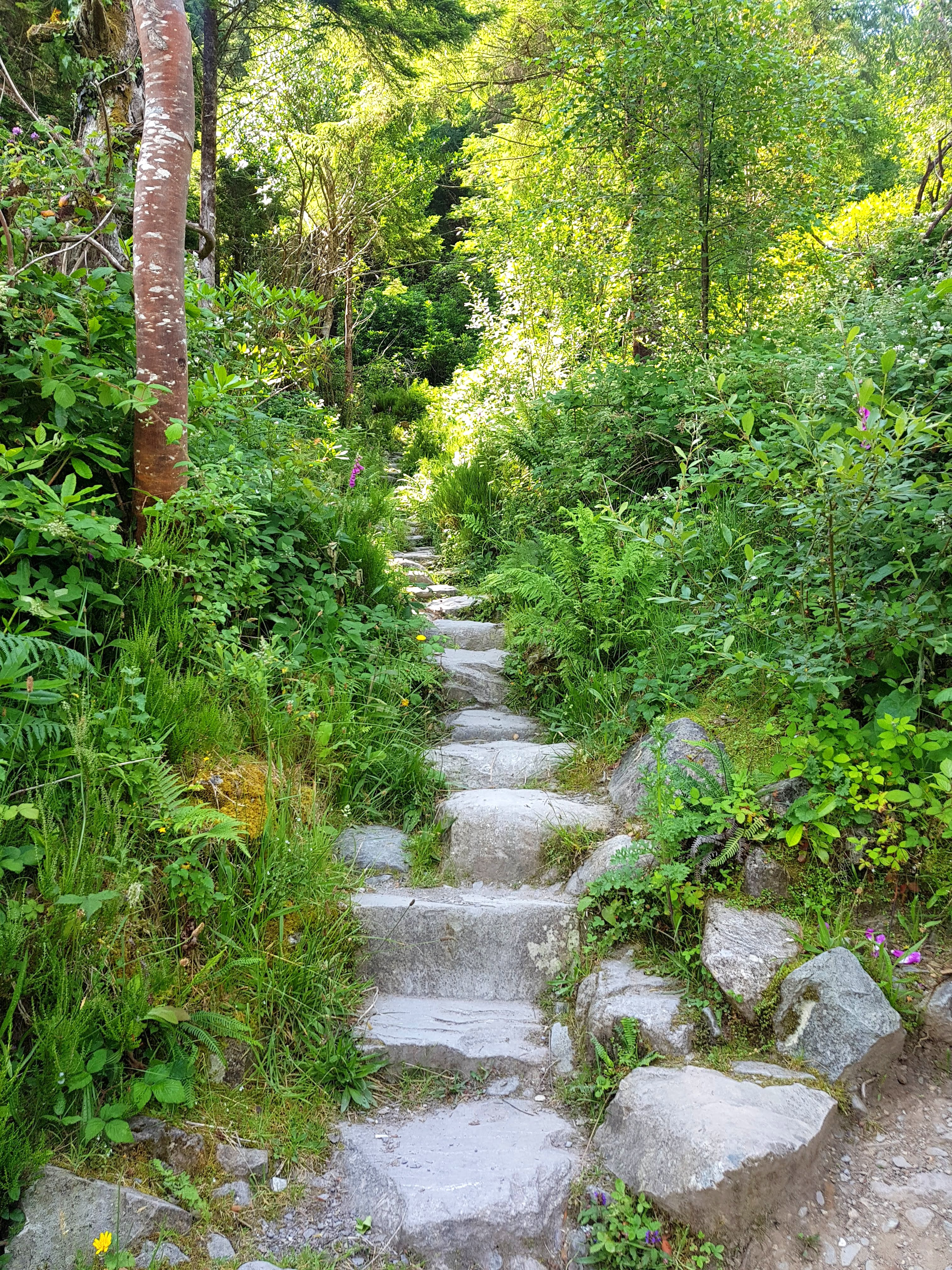 Cardiac Hill, Torc Waterfall, Killarney Ireland